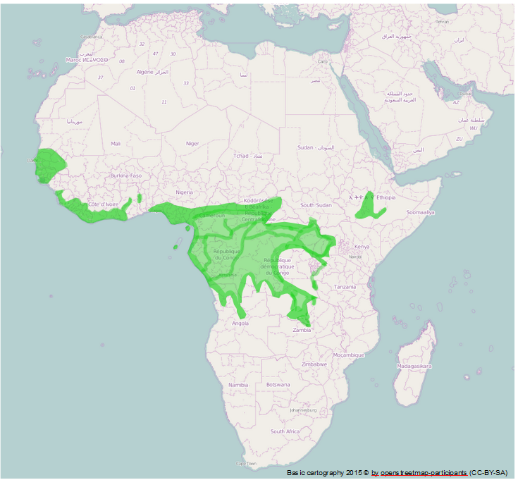 Distribution area of Splendid Glossy Starling (Lamprotornis splendidus)